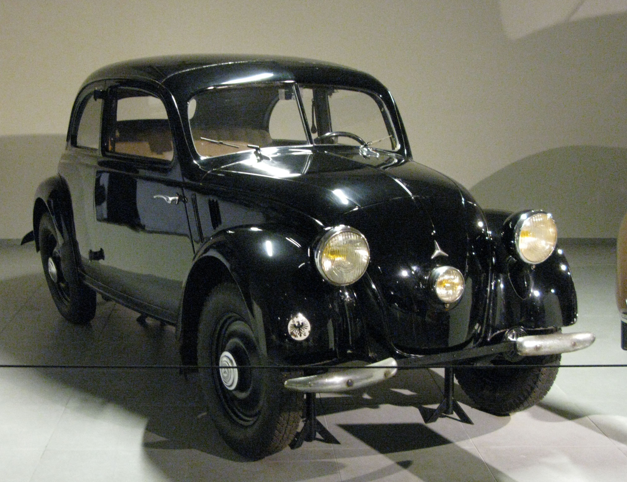 1936 Mercedes-Benz 170 H